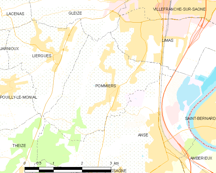 Map of French municipality